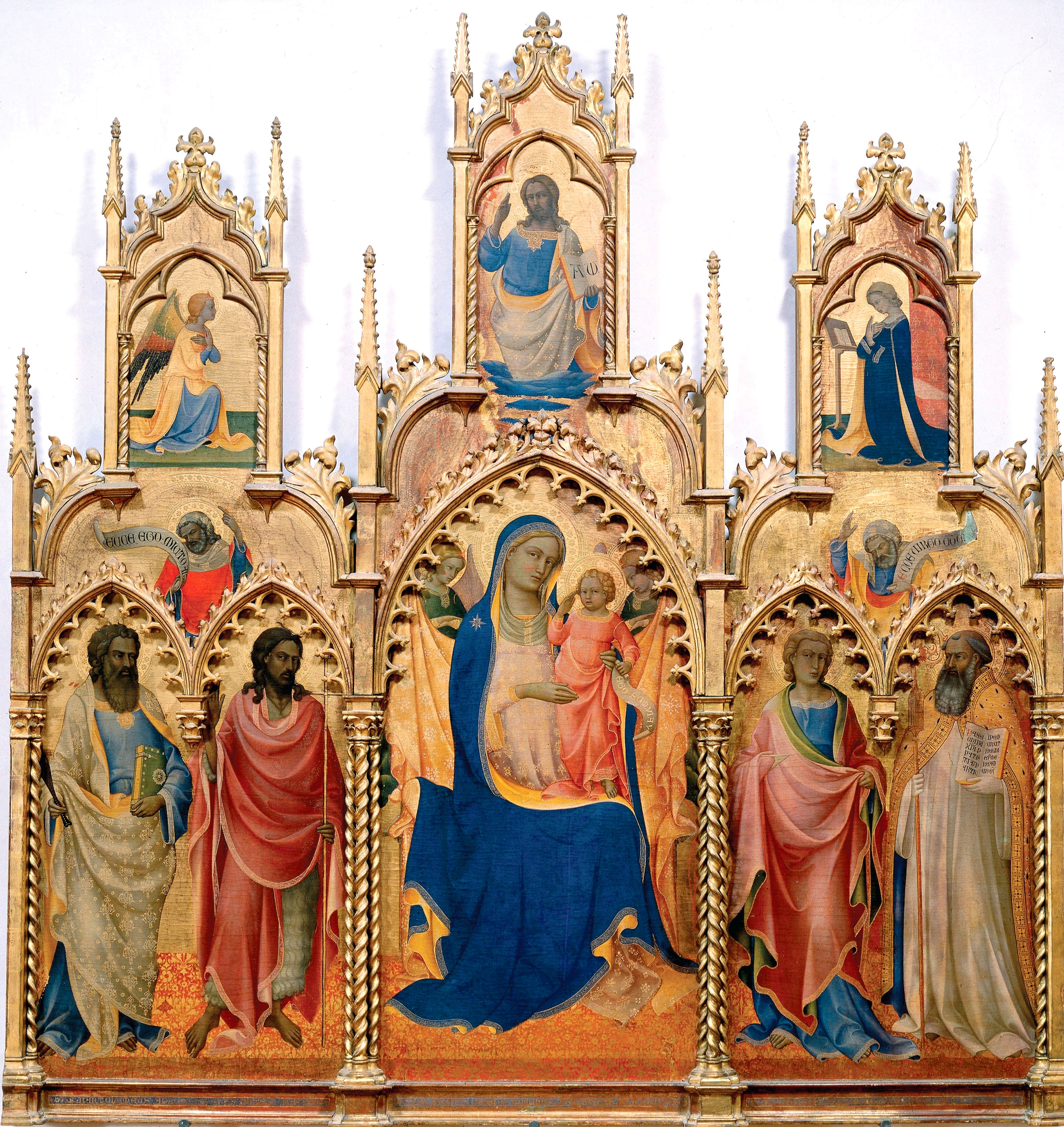 Lorenzo Monaco, Monte Oliveto Altarpiece, 1410, Galleria dell'Accademia, Florence